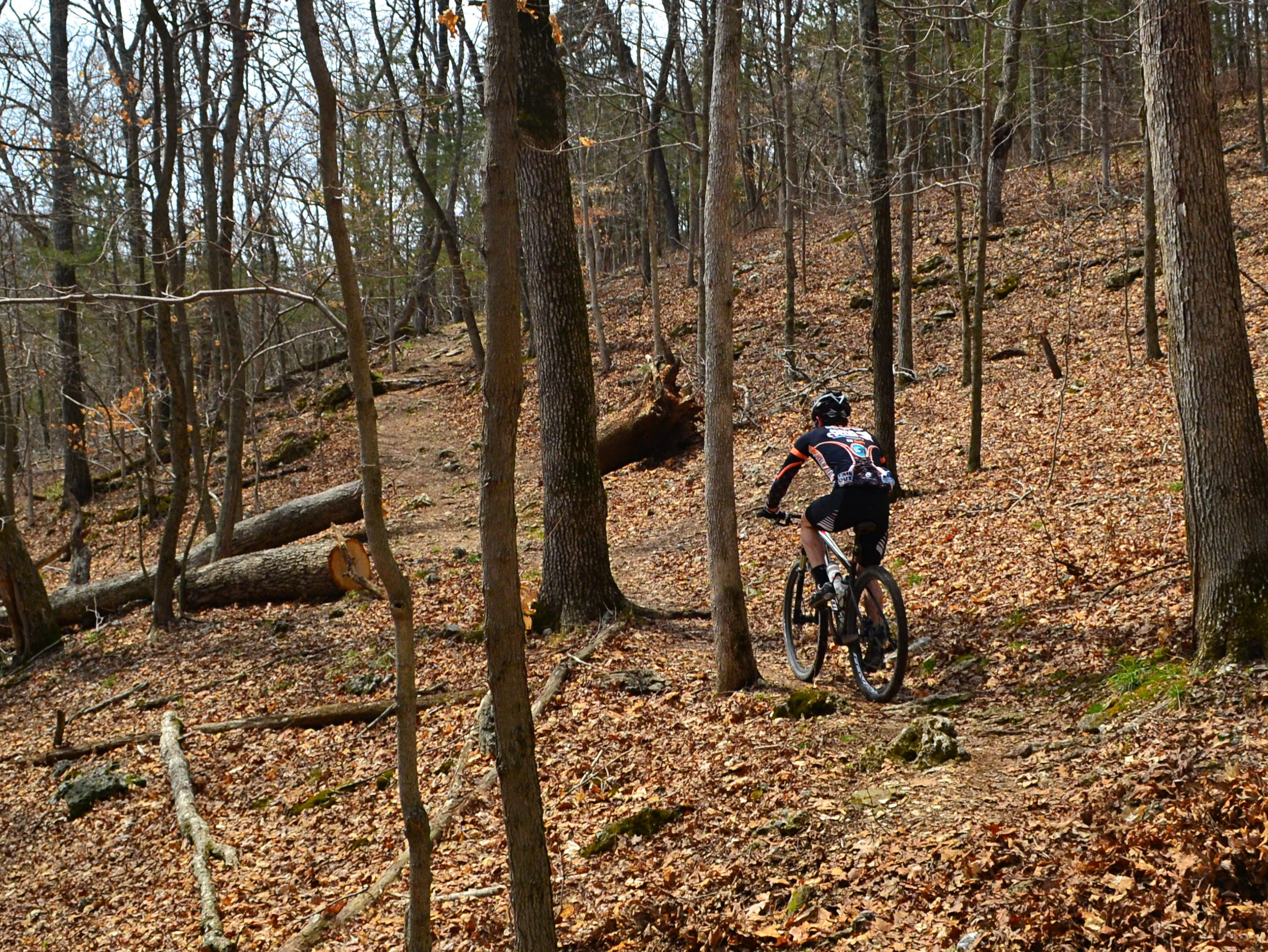 Mountain biker on the Rock Quarry Trail in West Tyson County Park in St. Louis County, Missouri.